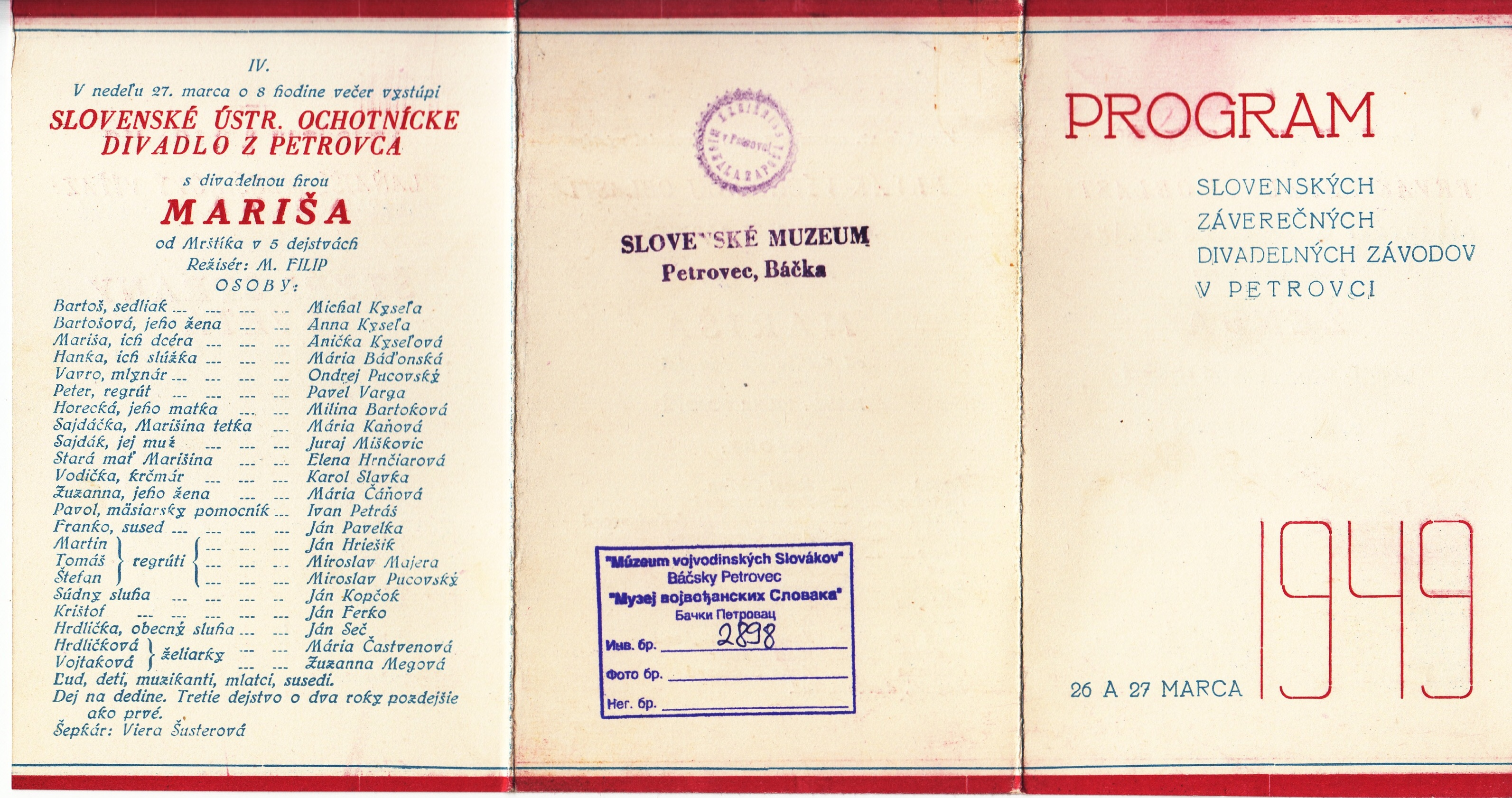 The program of the final competition of Slovak amateur theaters in 1949. Inventory number 2898. Srpski (latinica): Program završnog takmičenja Slovačkih amaterskih pozorišta 1949. Inventarski broj 2898.